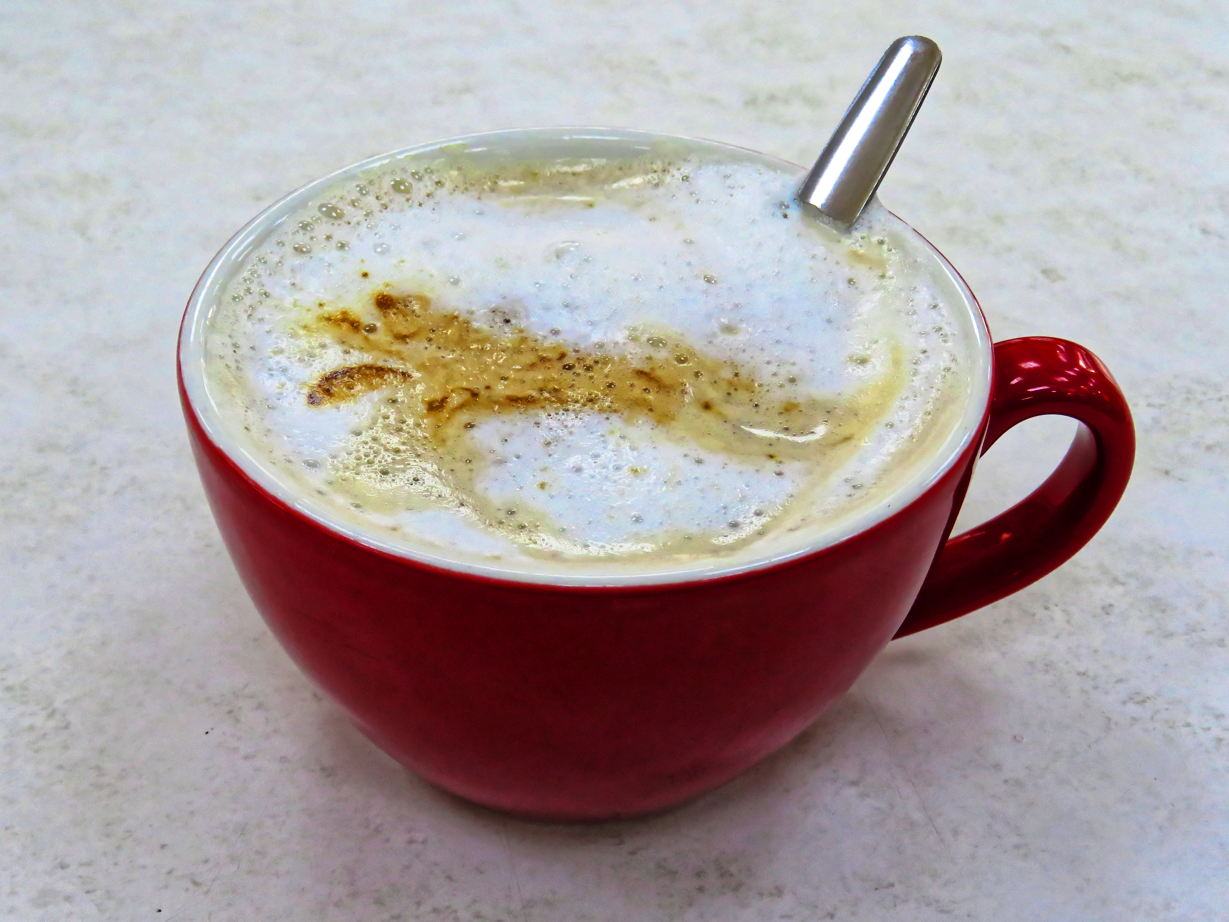 Coffee in a red cup at Cafe Express on York Way, in Camden, London, England.Mobile device view: Wikimedia (as at 2019) makes it difficult to immediately view photo groups related to this image. To see its most relevant allied photos, click on Earl Grey tea, and this uploader's Food and drink photos. You can add a beta click-through 'categories' button to the very bottom of photo-pages you view by going to settings... three-bar icon top left.Desktop view: Wikimedia (as at 2019) makes it difficult to immediately view the helpful category links where you can find images related to this one in a variety of ways; for these go to the very bottom of the page.This image is one of a series of date and/or subject allied consecutive photographs kept in progression or location by file name number and/or time marking.Camera: Canon PowerShot SX60 HS.Software: file lens-corrected and optimized with DxO PhotoLab 2 Elite and Viewpoint 3, and further optimized with Adobe Photoshop CS2.